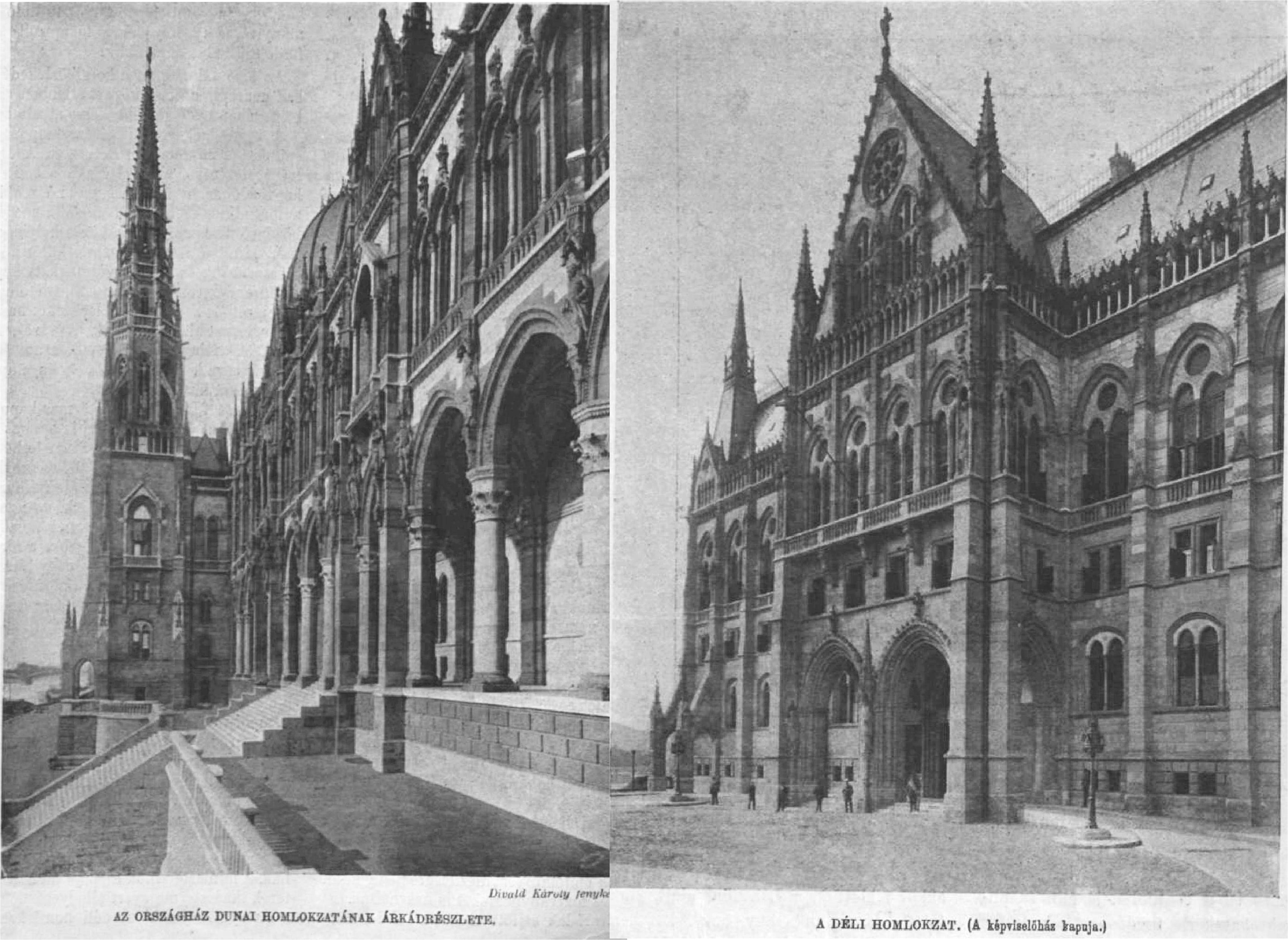 Parliament of Hungary. Photographs of Károly Divald.